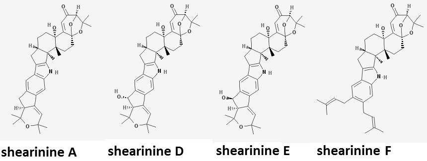 Shearinine A,D,E,F